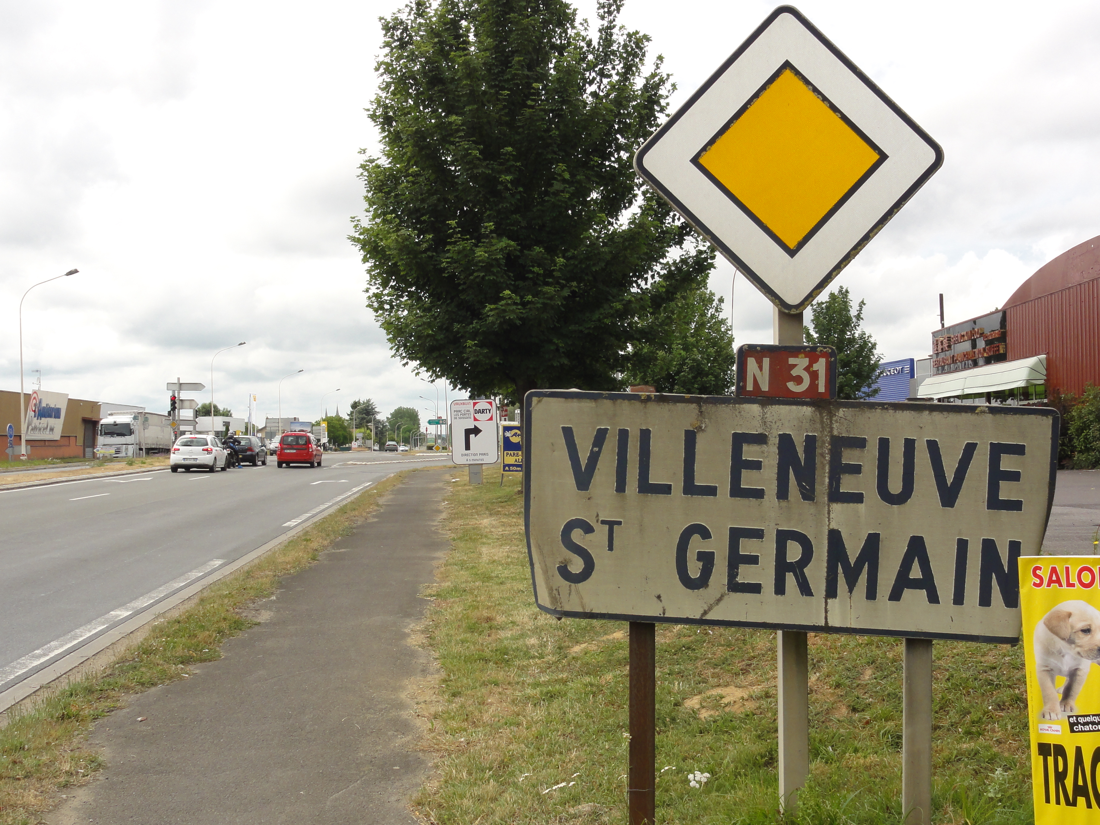 Villeneuve-Saint-Germain (Aisne) city limit sign